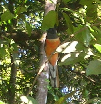 Immature Malabar Trogon male from Wynaad, Kerala.